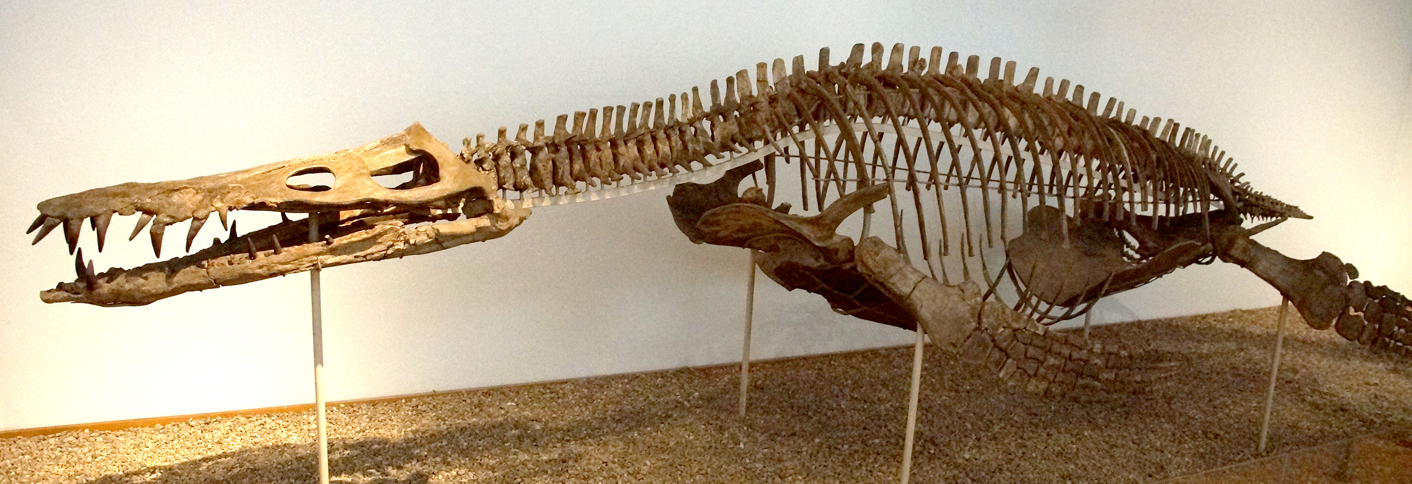 Pliosaur Lipleurodon ferox at the paleontological Institute of the University of Tübingen